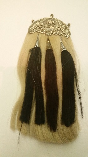 Piper’s sporran,belongs to the Argyll and Sutherland Highlanders Regimental Museum